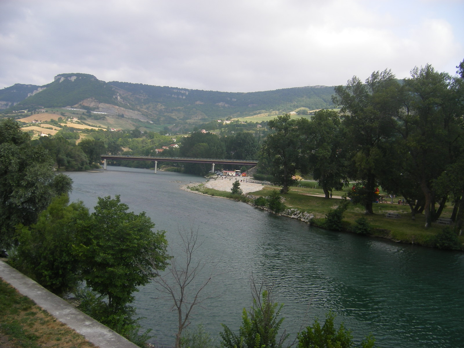 The Tarn river at Millau